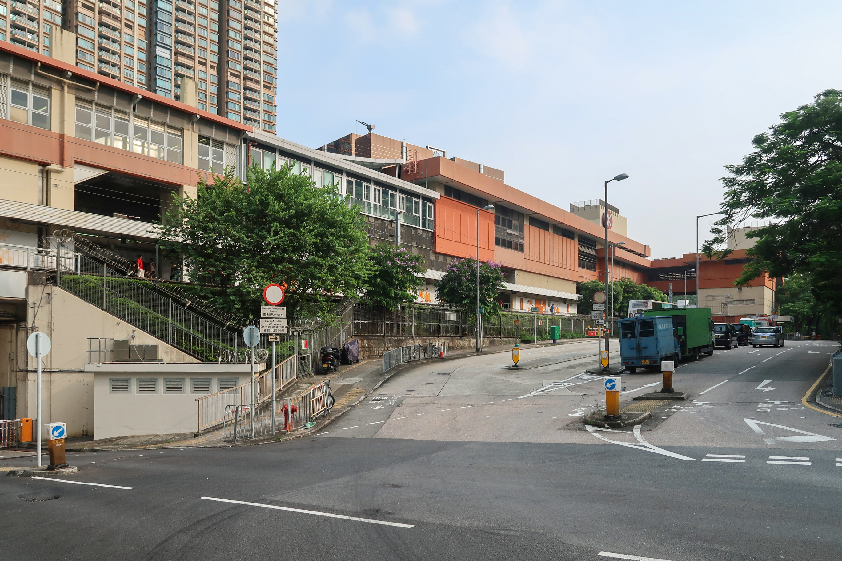 Fo Tan Station